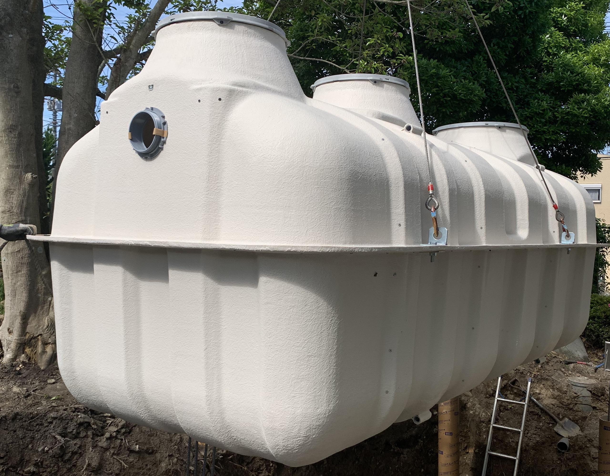 Japanese septic tank